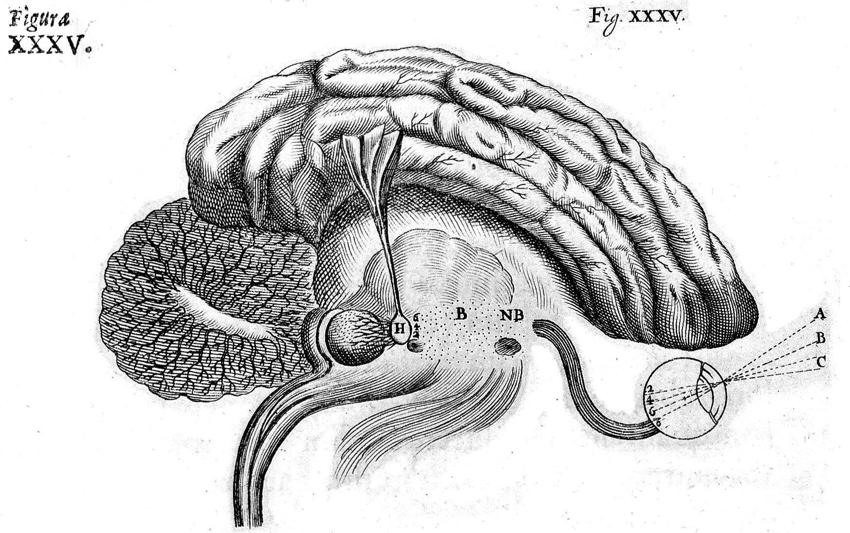 Descartes: The Nervous System. Diagram of the brain Rare Books Keywords: Philosophy; Mathematics; Anatomy; Nervous System; Rene Descartes